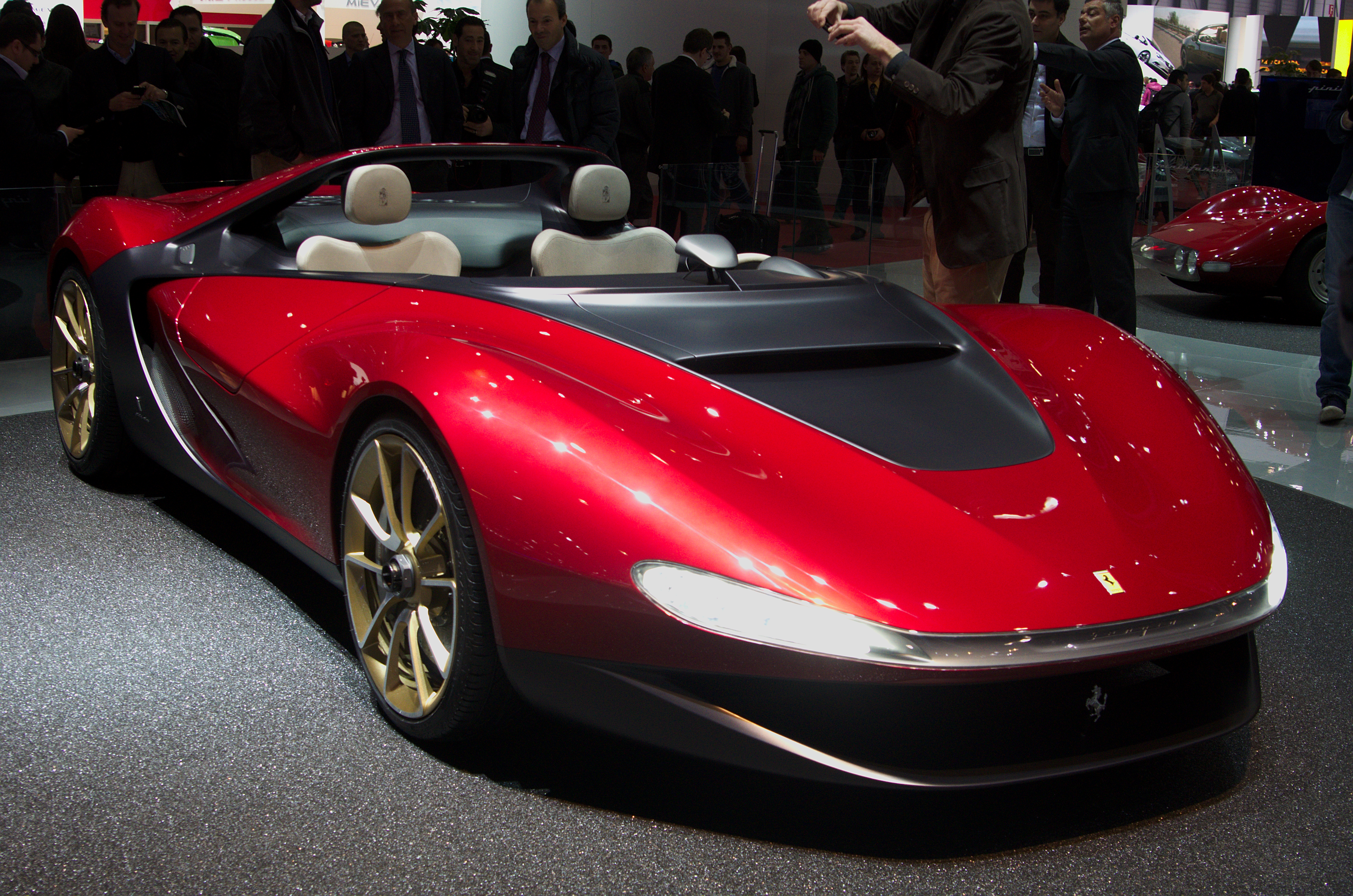 Geneva MotorShow 2013 - Pininfarina Sergio right front view